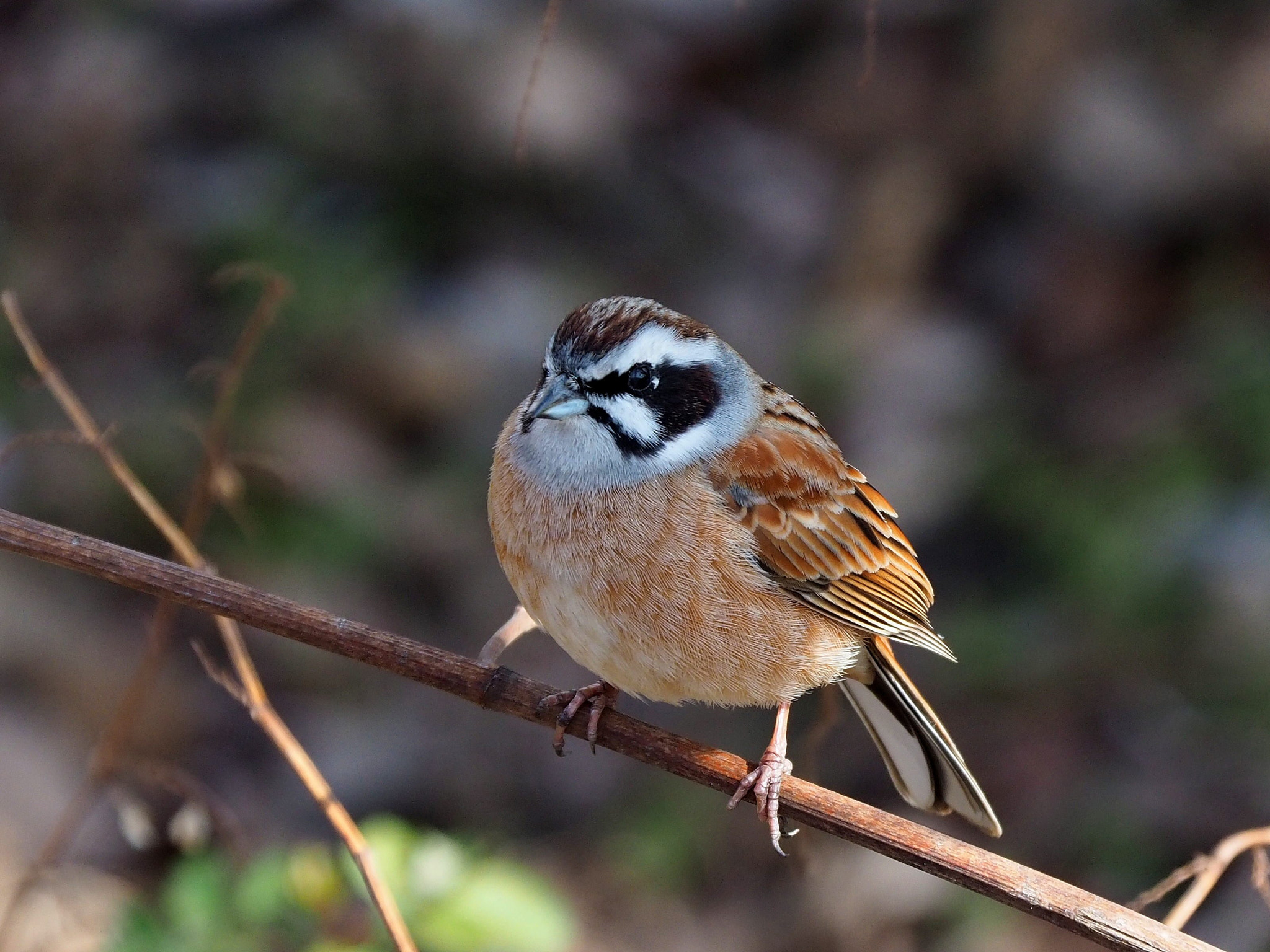 500px provided description: Meadow bunting male (Emberiza cioides, ????, ??) along Yasugawa near the gounrd golf course in Deba, Ritto City (via Flickr [#birds ,#wildlife ,#?? ,#Japan ,#Flickr ,#??? ,#???? ,#???]